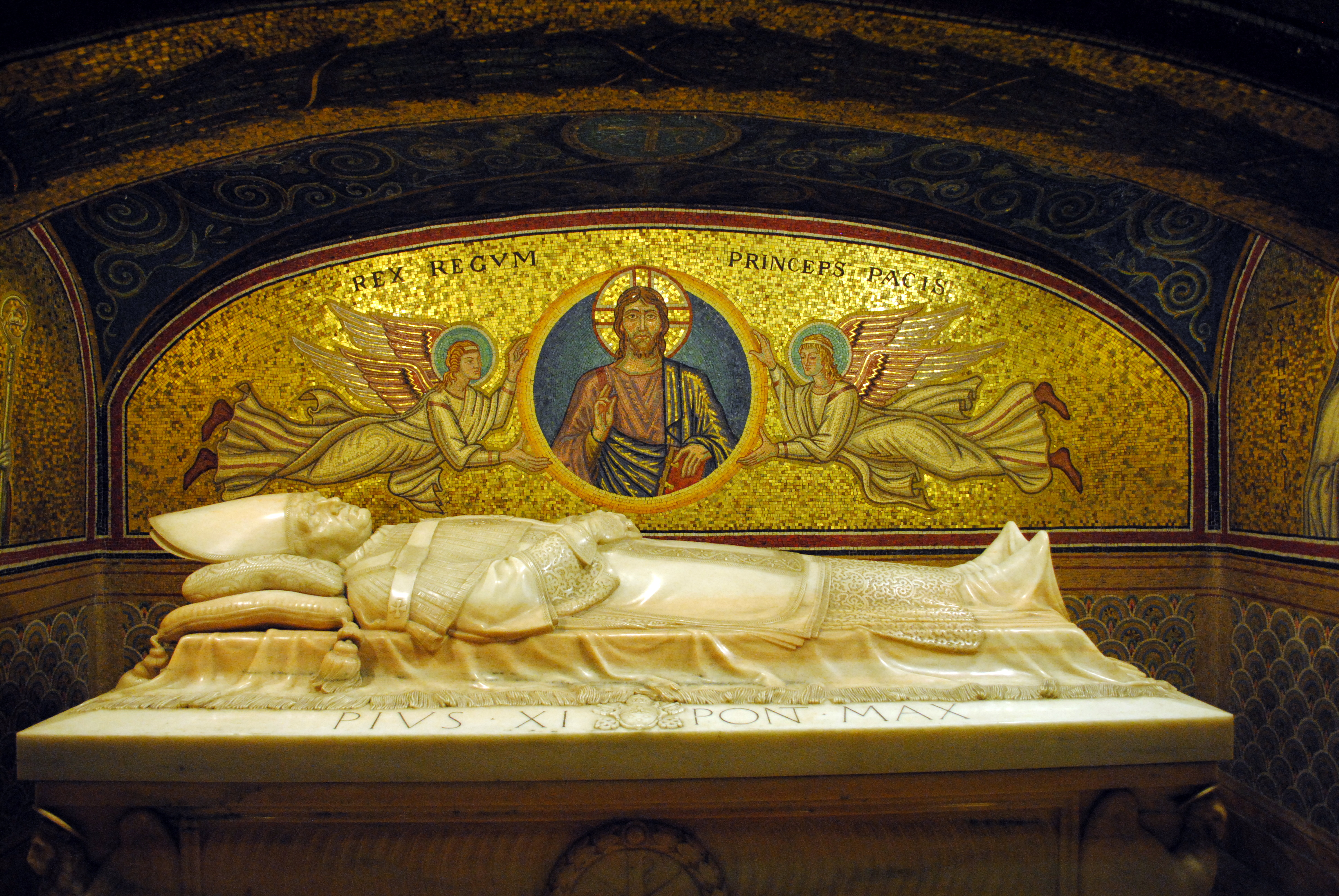 The tomb of Pope Pius XI in the crypt at St. Peter's Basilica.